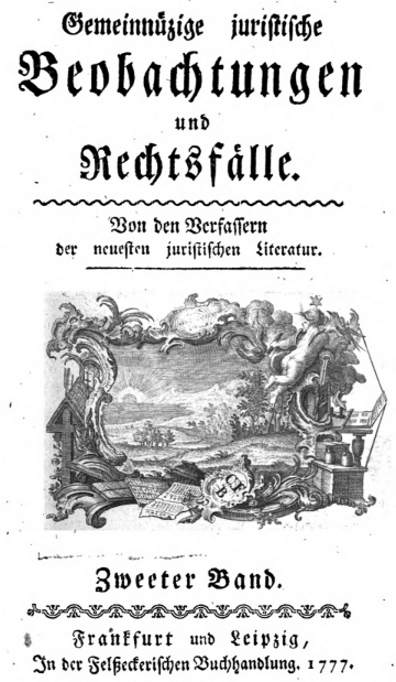 Christian Gottlieb Gmelin (1749-1818) german jurist